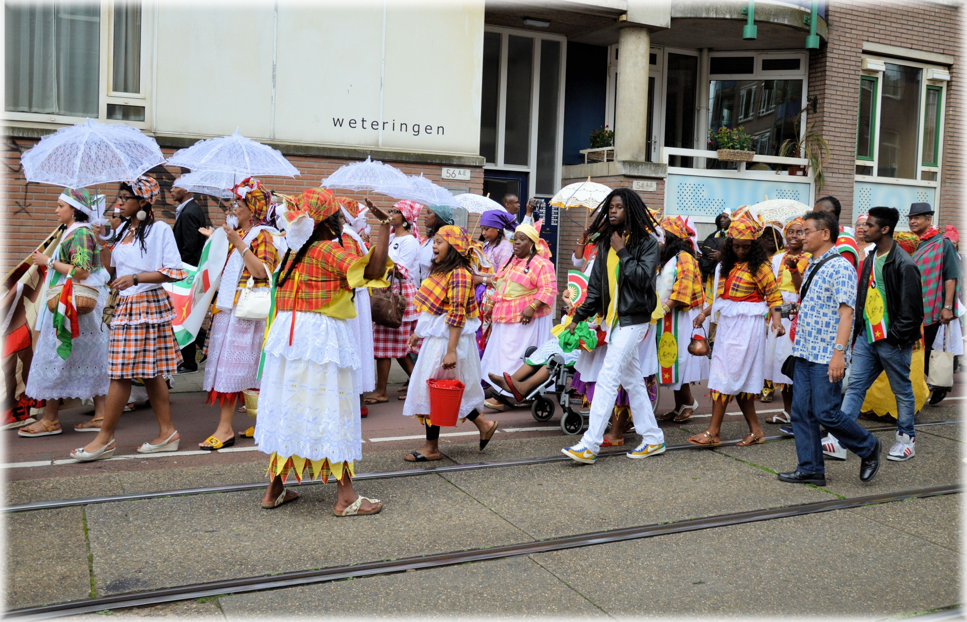 Keti Koti